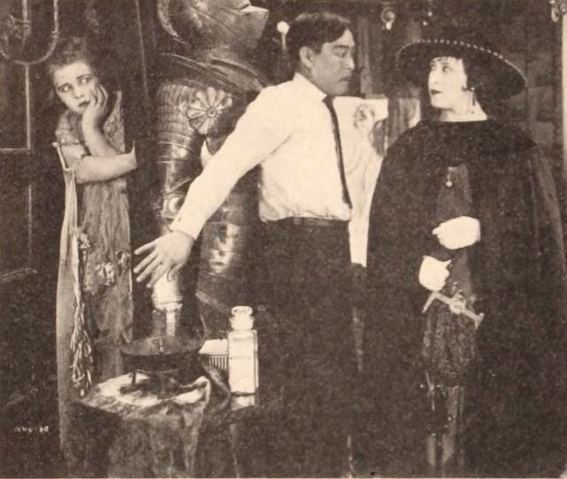 Still from the American comedy film The Outside Woman (1921) with Wanda Hawley, Misao Seki, and Rosita Marstini, on page 78 of the March 19, 1921 Exhibitors Herald.